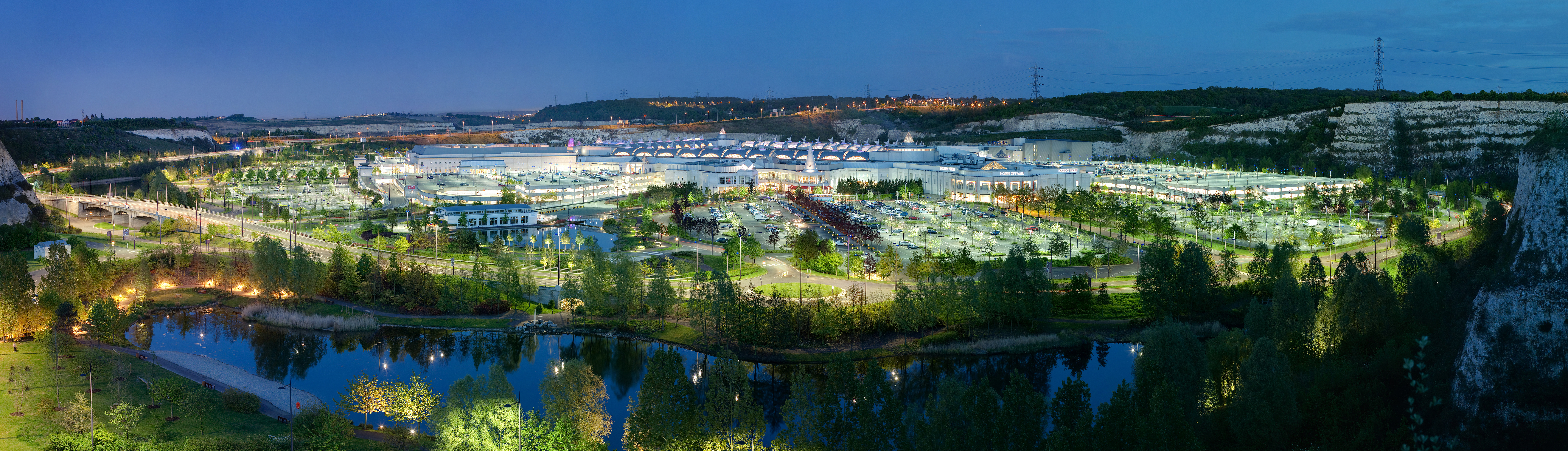 A 63 segment exposure fusioned image (3 exposure frames * 3 rows * 7 per row) of Bluewater Shopping Centre in Greenhithe, Kent, England. Taken by myself with a Canon 5D and 85mm f/1.8 lens.